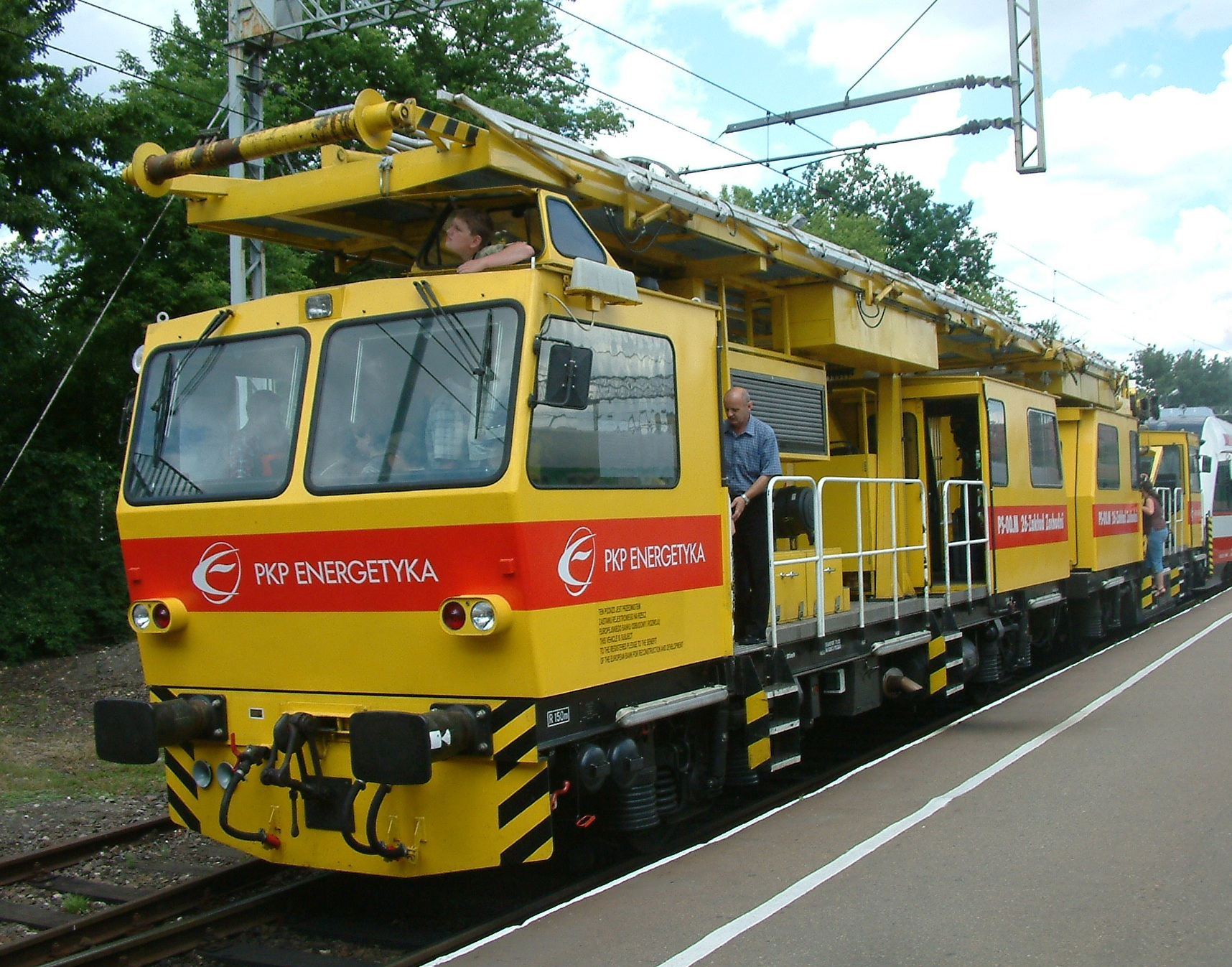 Traction train PS-00.M in Poznań